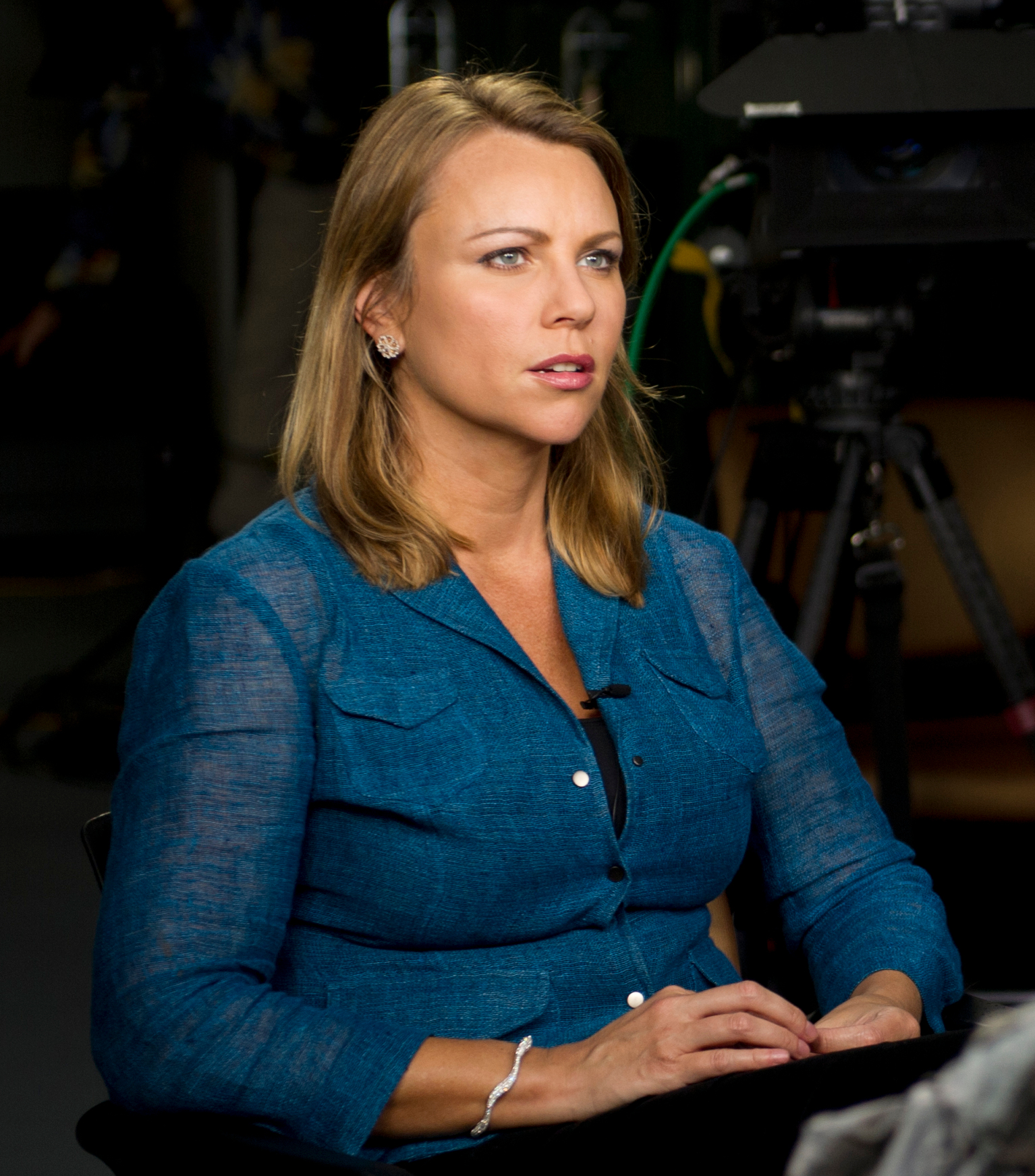 Lara Logan with CBS's "60 Minutes", sits with U.S. Army Sgt. 1st Class Chris Corbin, assigned to the 7th Special Forces Group (Airborne), before conducting an interview at Eglin Base Air Force Base, Fla., March 18, 2013.